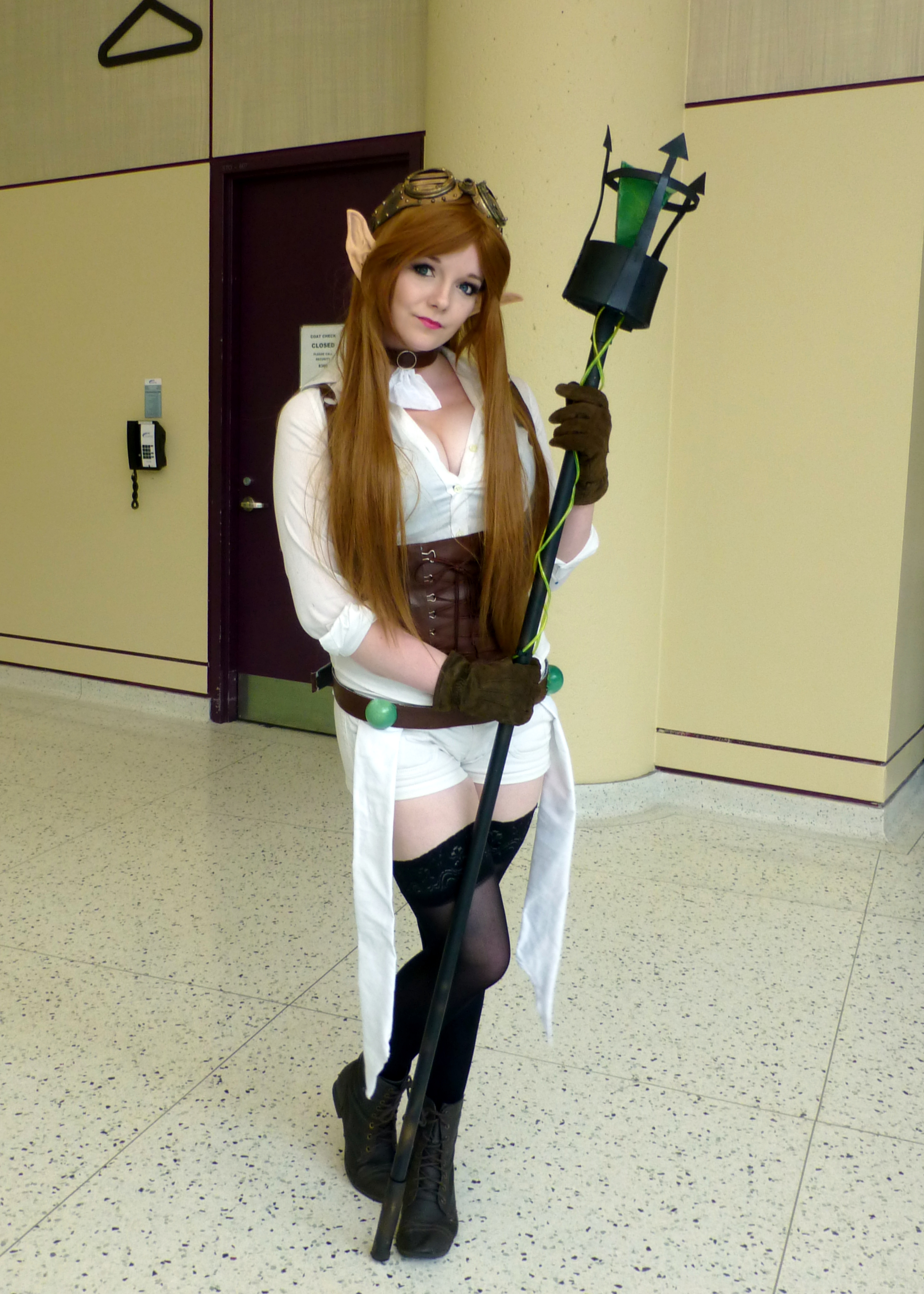 Hextech Janna Cosplay at Fan Expo Canada in 2015.